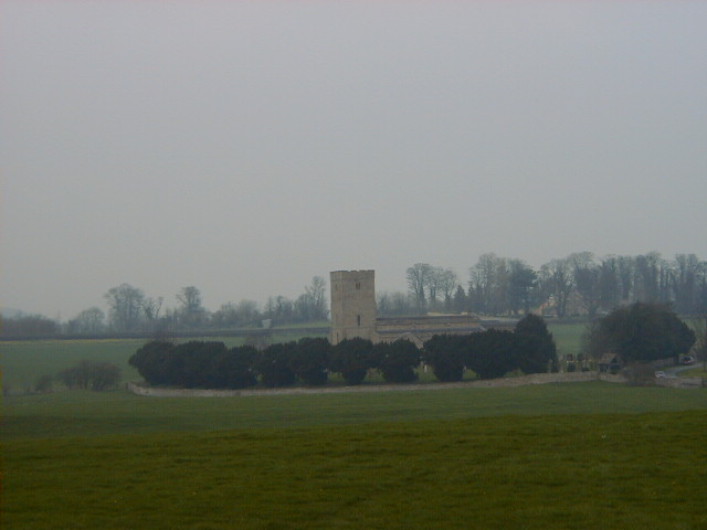 I took this photograph. The Church of St John The Baptist and its circular churchyard.